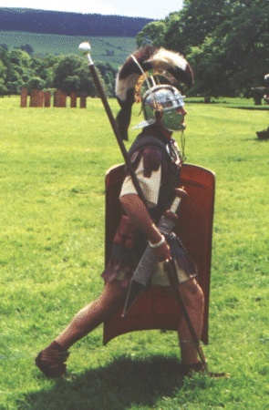 A Photograph of a Roman Optio taken at Chesters Fort in May 2000. Copyright on this picture belongs to Siôn McElveen, who has given permission for this image to be used on wikipedia.